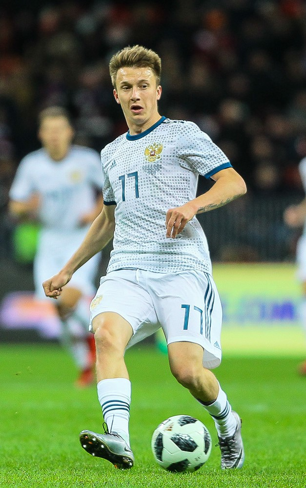 Aleksandr Golovin